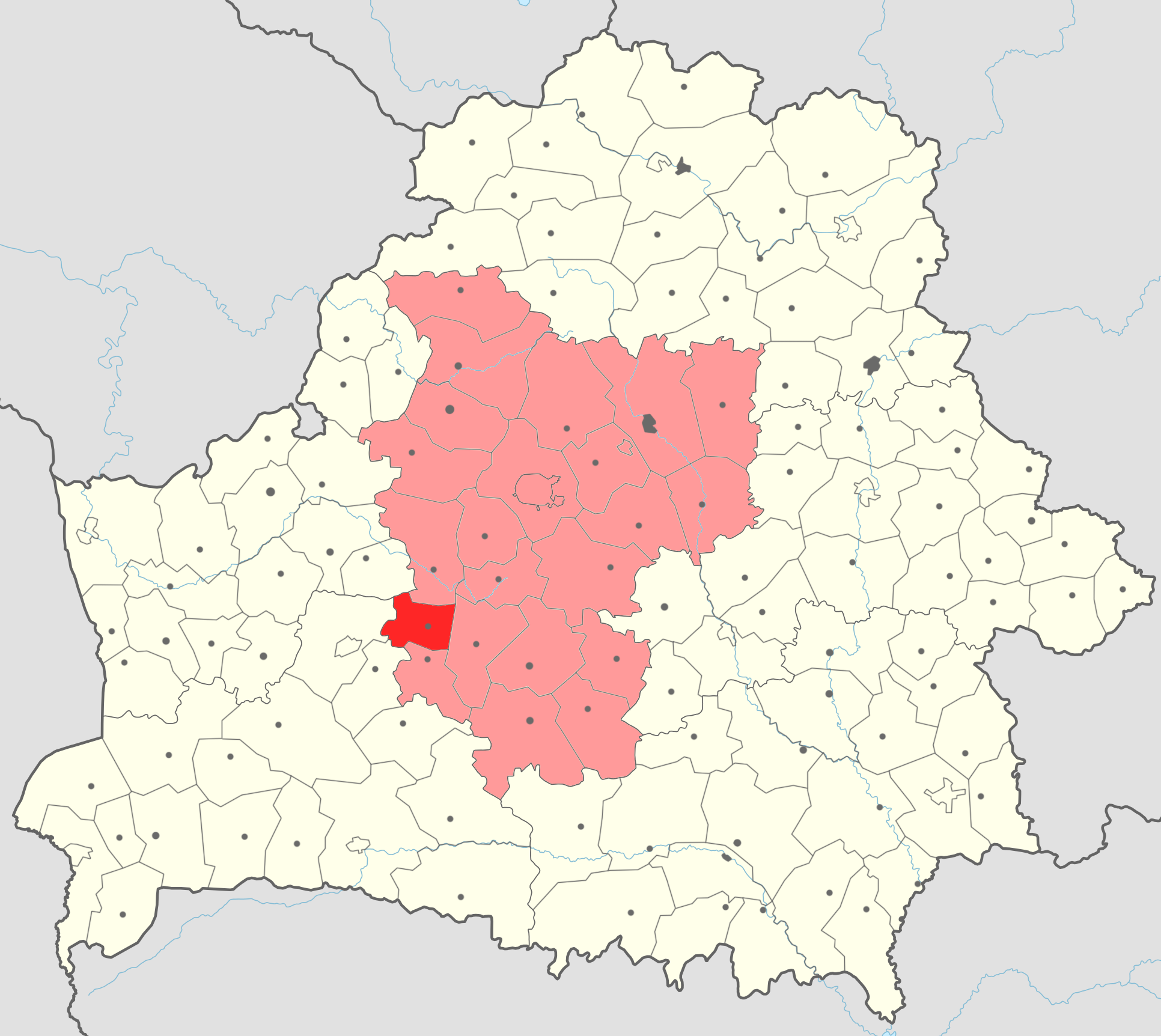 Map of Niasviž rayon (in red) with Minsk voblast' (in light red) on the map of Belarus.